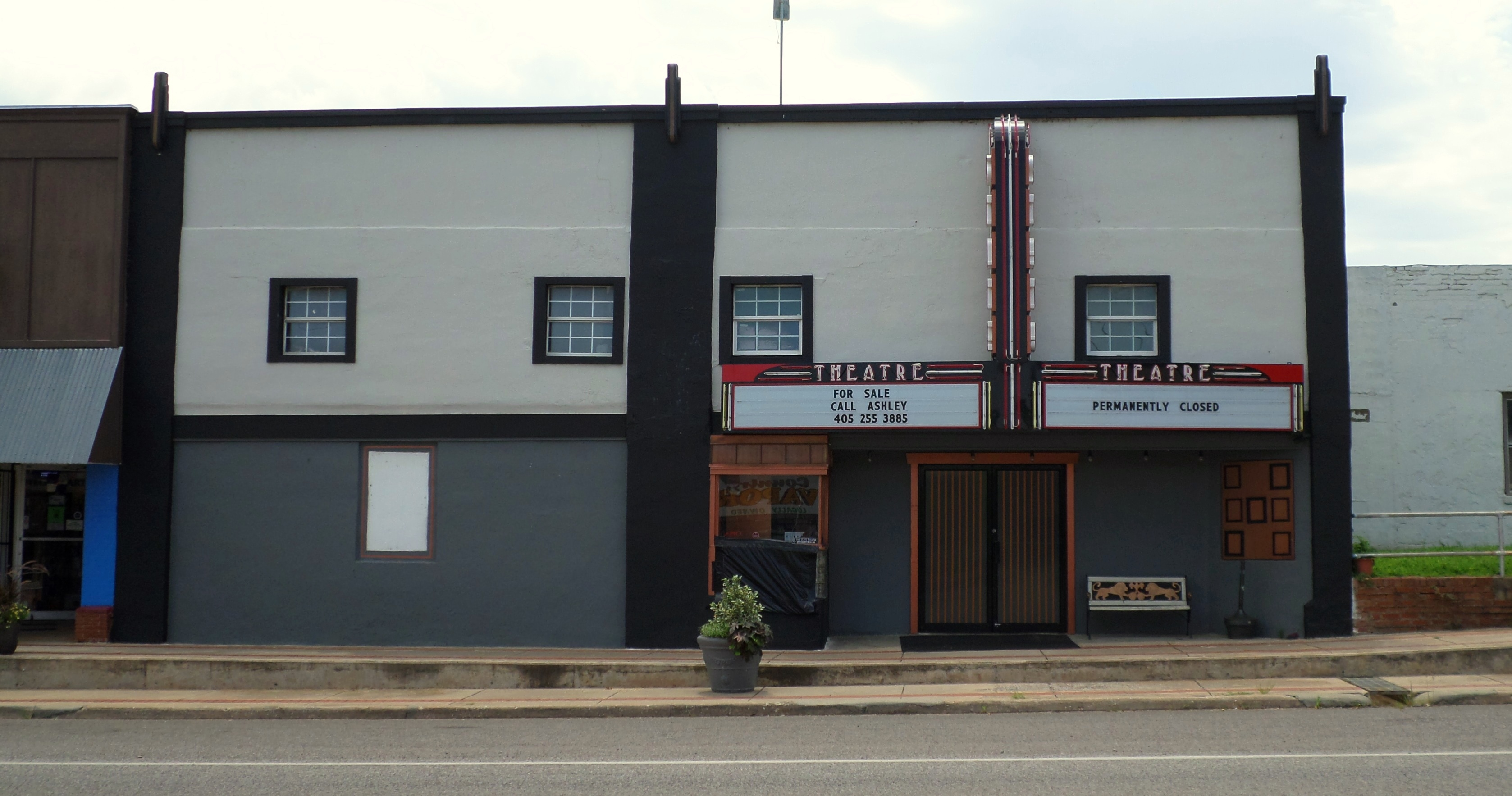 The State Theatre, located at 1961 Church Ave., Harrah, OK.